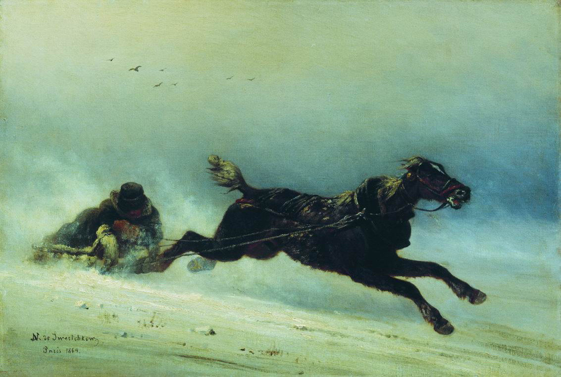 Painting by Nikolai Sverchkov